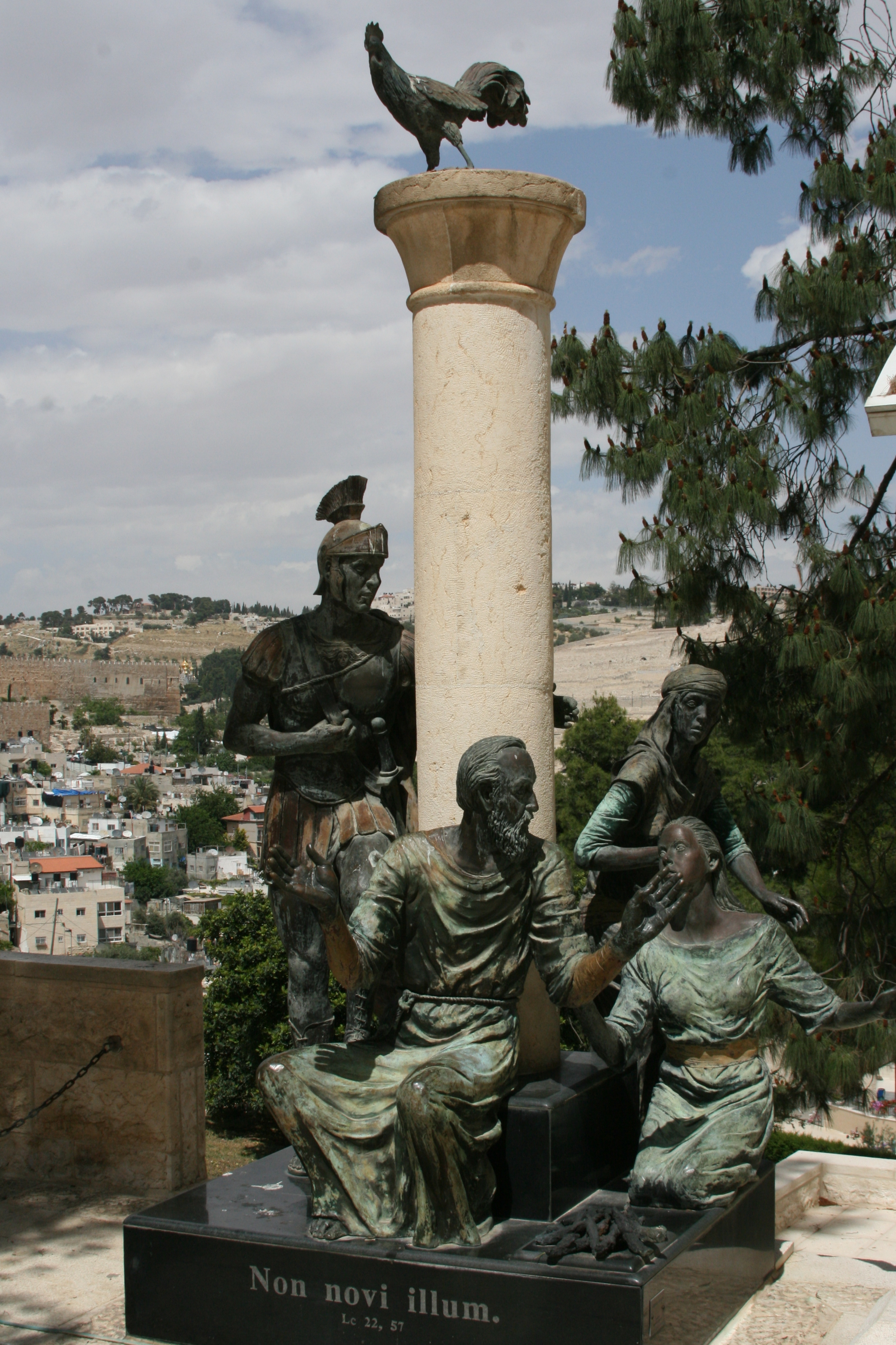 "Non novi illum" means "I do not know him" (Luke 22:57). May 2013 trip to Jerusalem, part of Behold the Man curriculum of St. George's College. Jerusalem